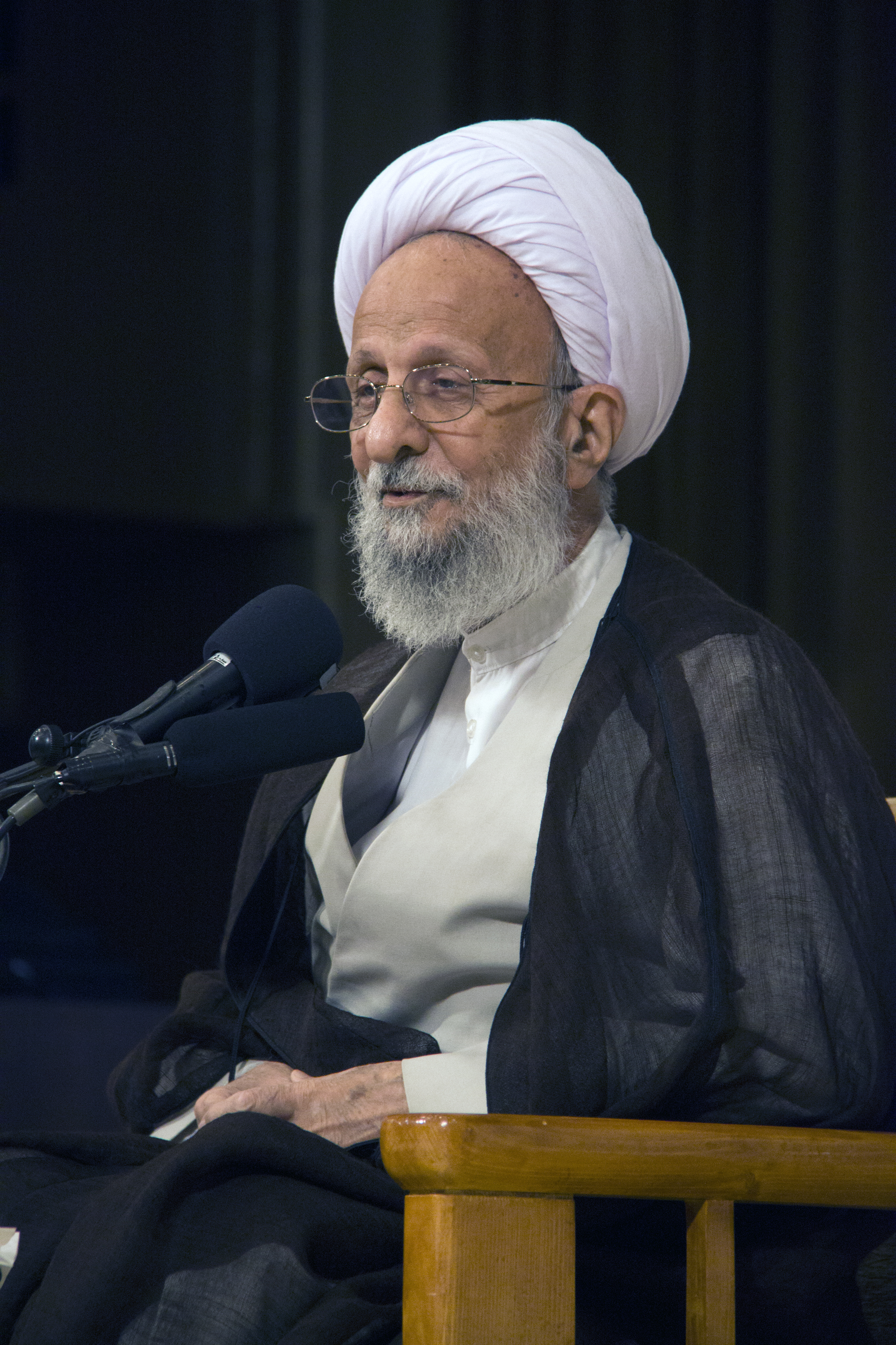 Taqī Miṣbāḥ commonly known as Muḥammad–Taqī Miṣbāḥ Yazdī is an Iranian Twelver Shi'i cleric and principlist political activist who unofficially leads Front of Islamic Revolution Stability. He was a member of the Assembly of Experts, the body responsible for choosing the Supreme Leader, where he heads a minority faction. He has been called 'the most conservative' and the most 'powerful' clerical oligarch in Iran's leading center of religious learning, the city of Qom.